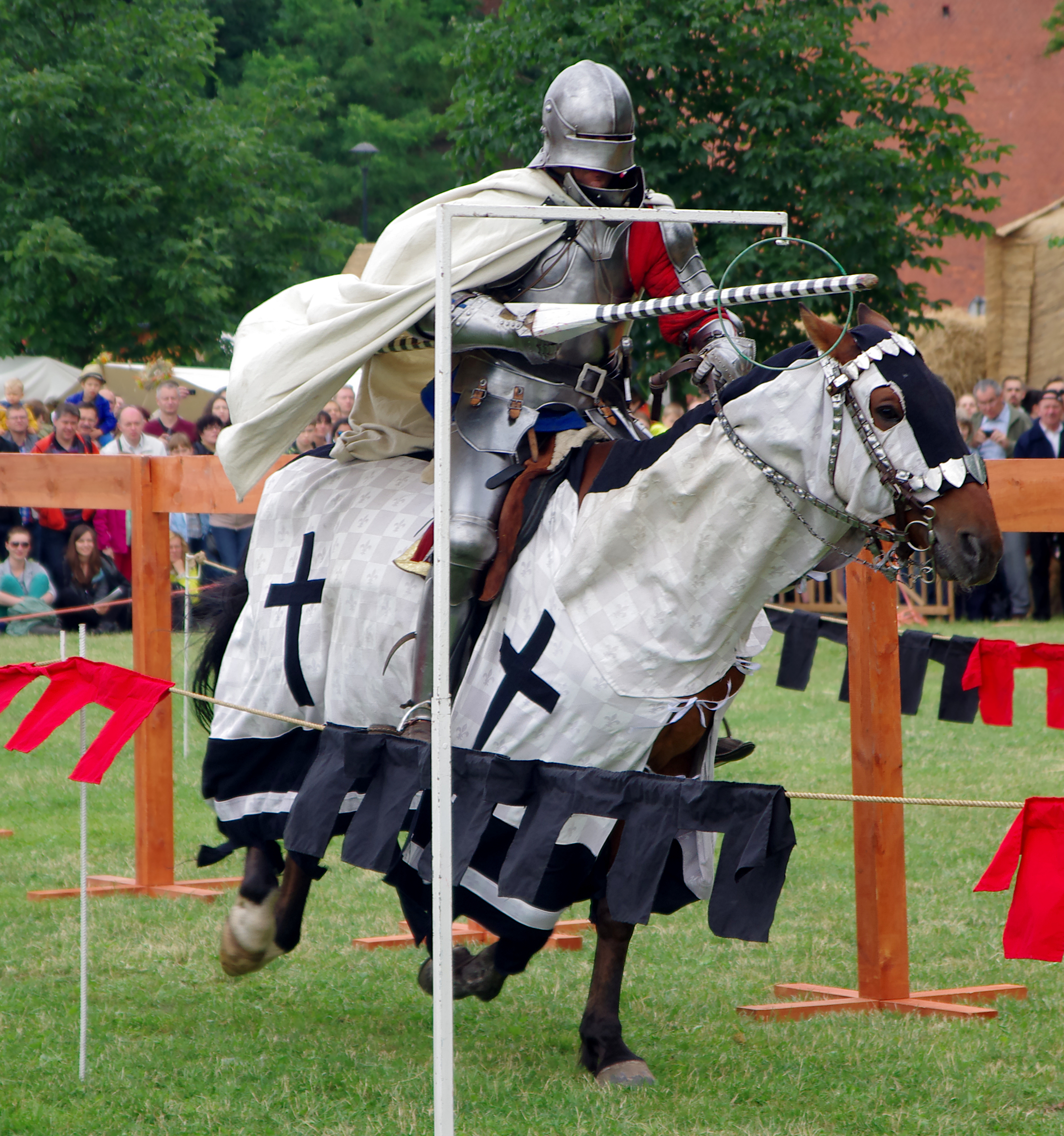 Mounted knight at Jarmark Świętojański festival in Kraków